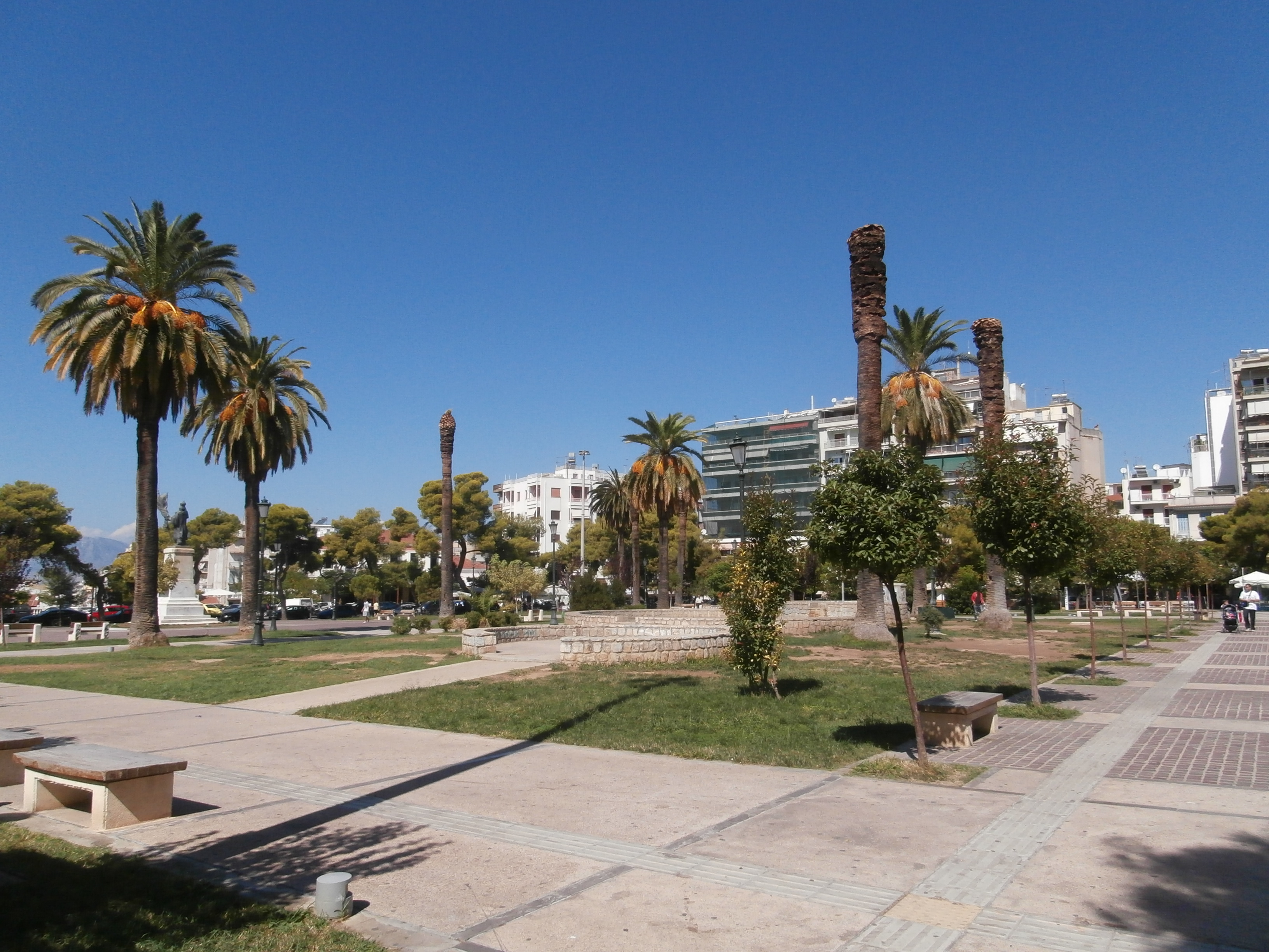 The Ispila Alonia Square in Patra